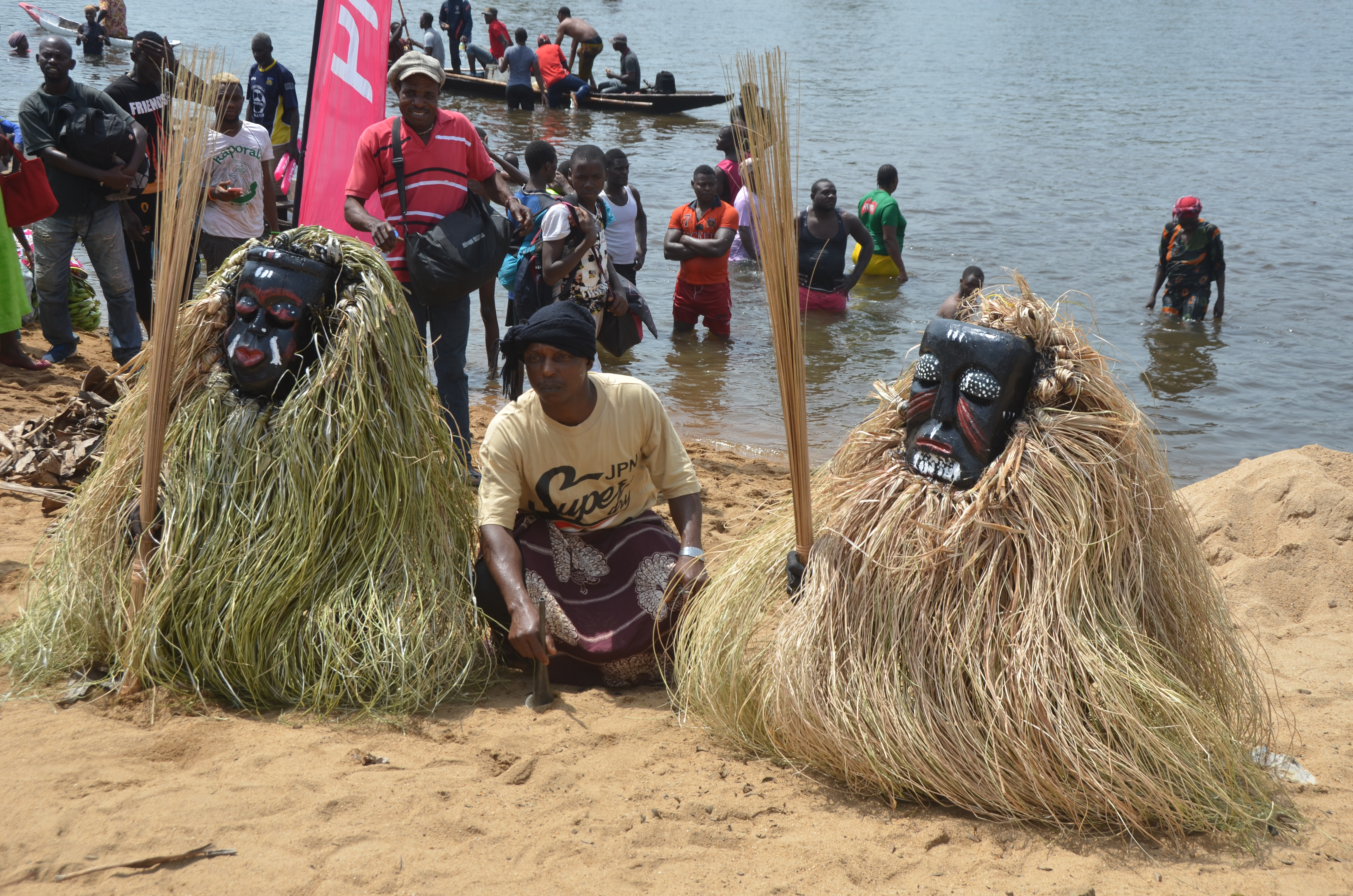 This is an image with the theme "Play" from: Cameroon